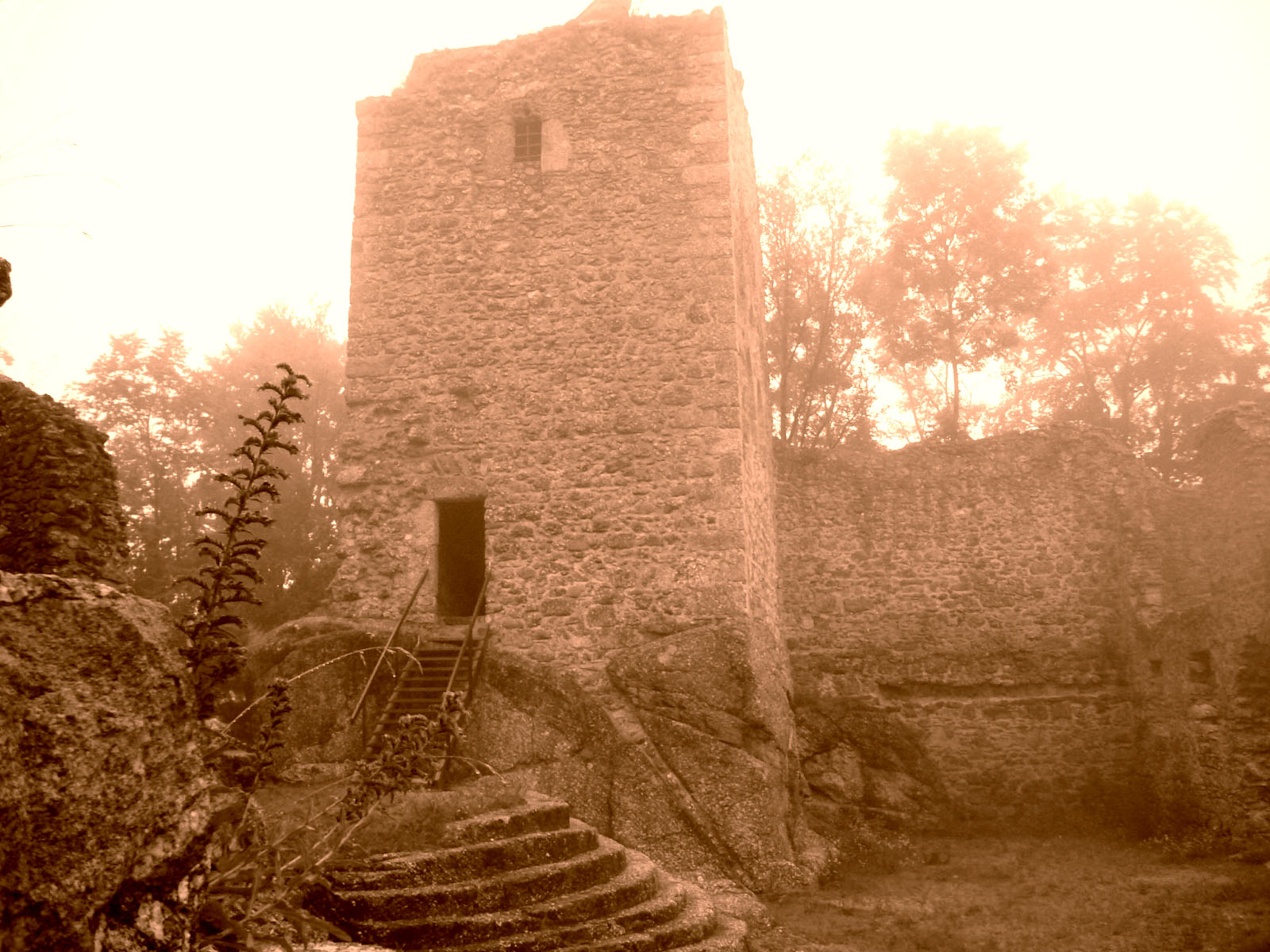 Main tower of ruin Ruttenstein (Upper Austria)